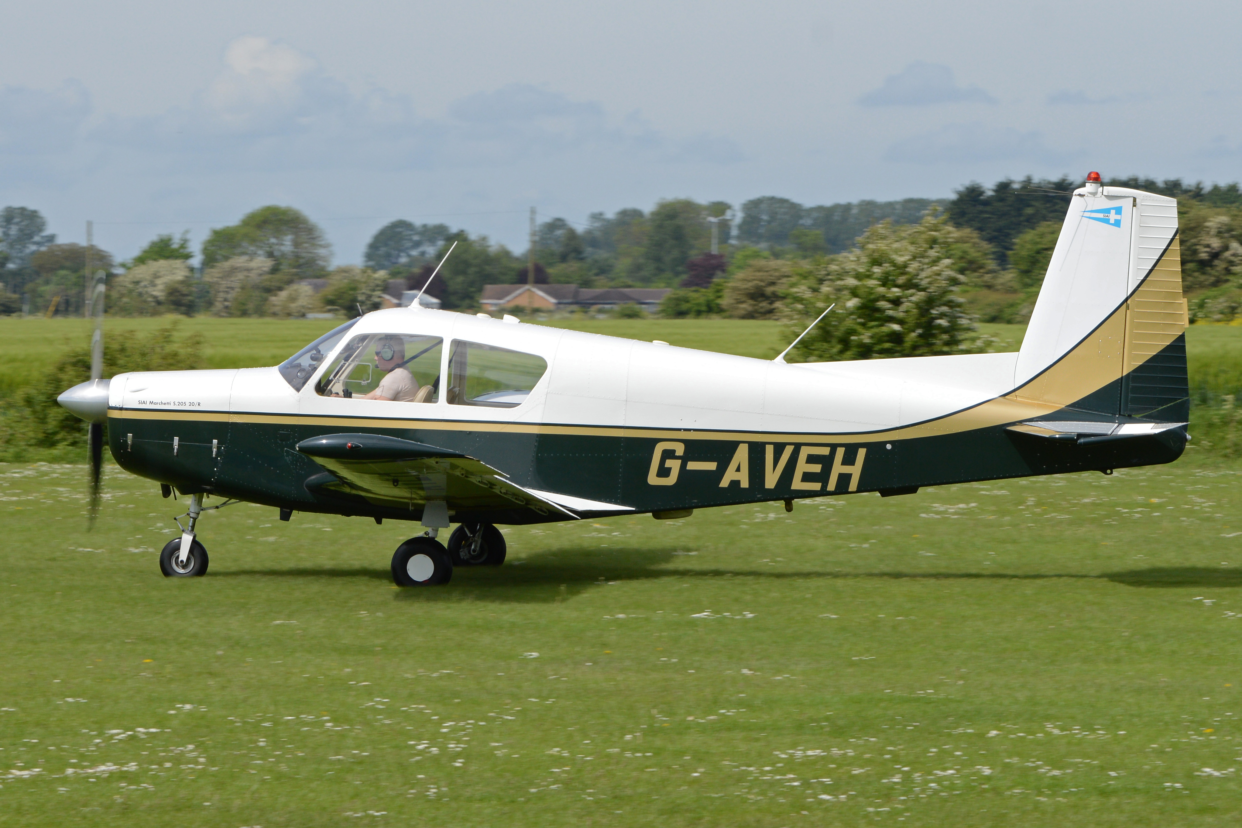 c/n 346 Built 1967. Fenland Airfield, Lincolnshire, UK. 21st May 2017